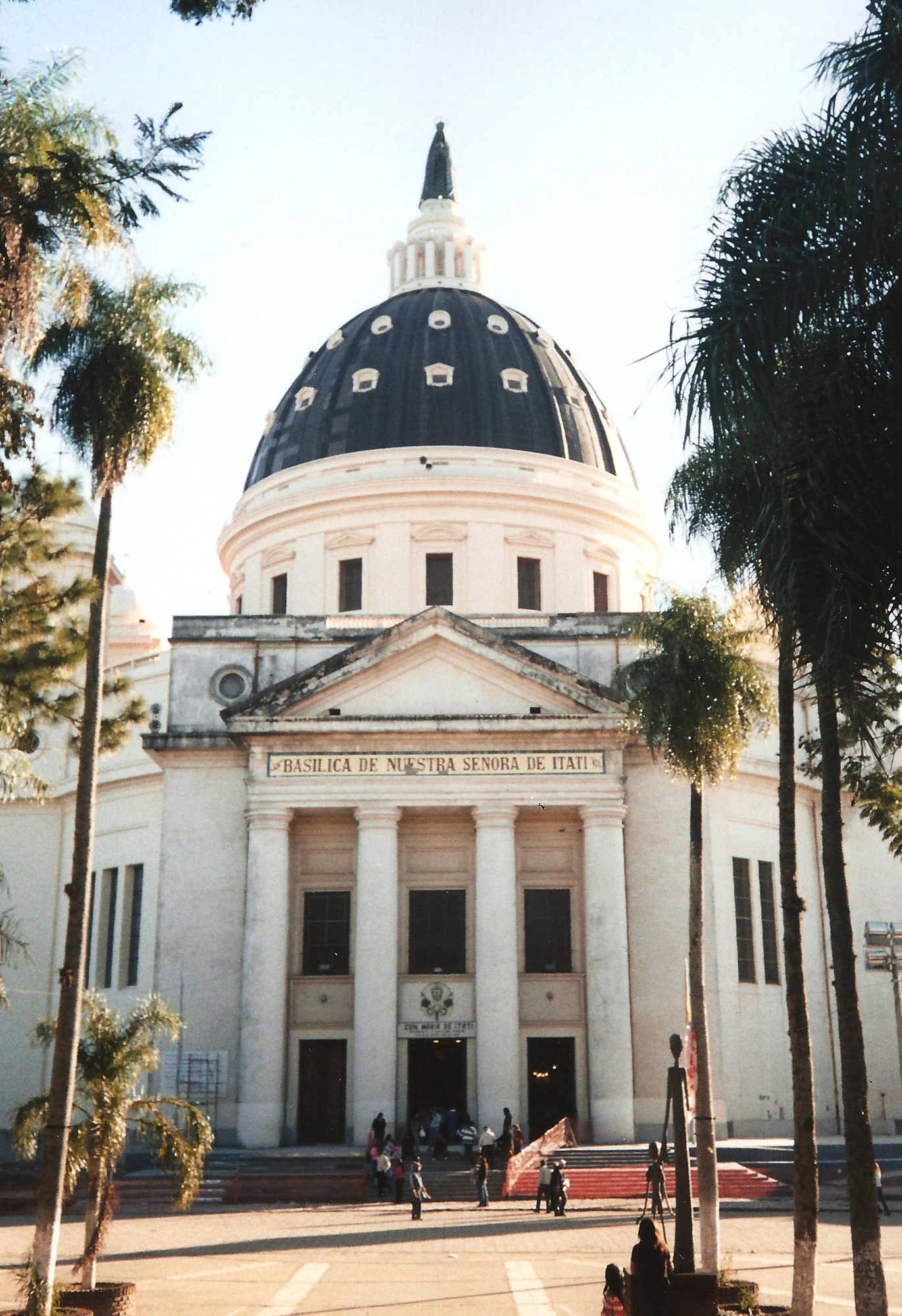 Front view of Itati's Basilica in Itatí town, Corrientes, Argentina. Picture is taken from the main town square.